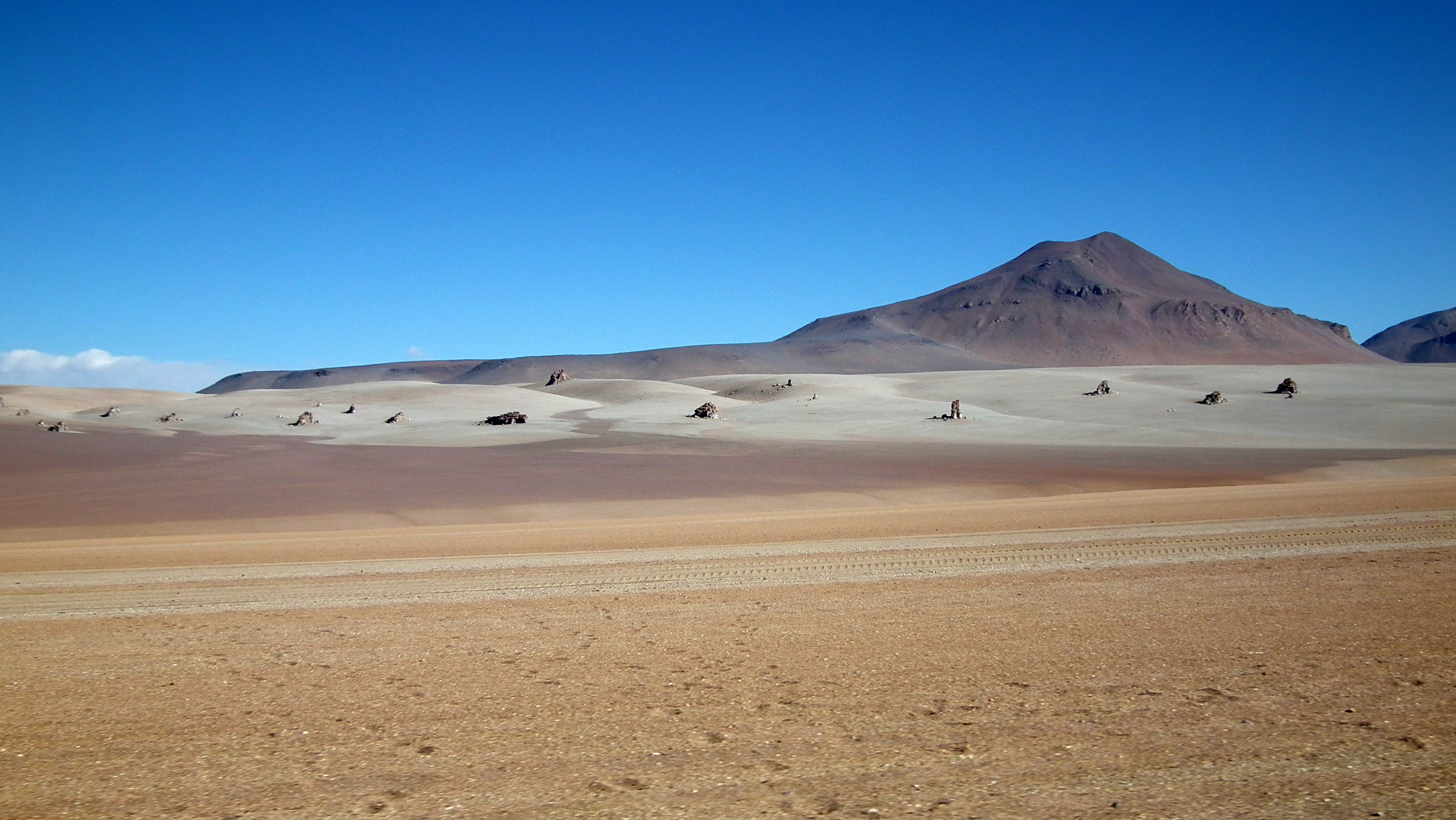 Salavador Dali Desert, Bolivia